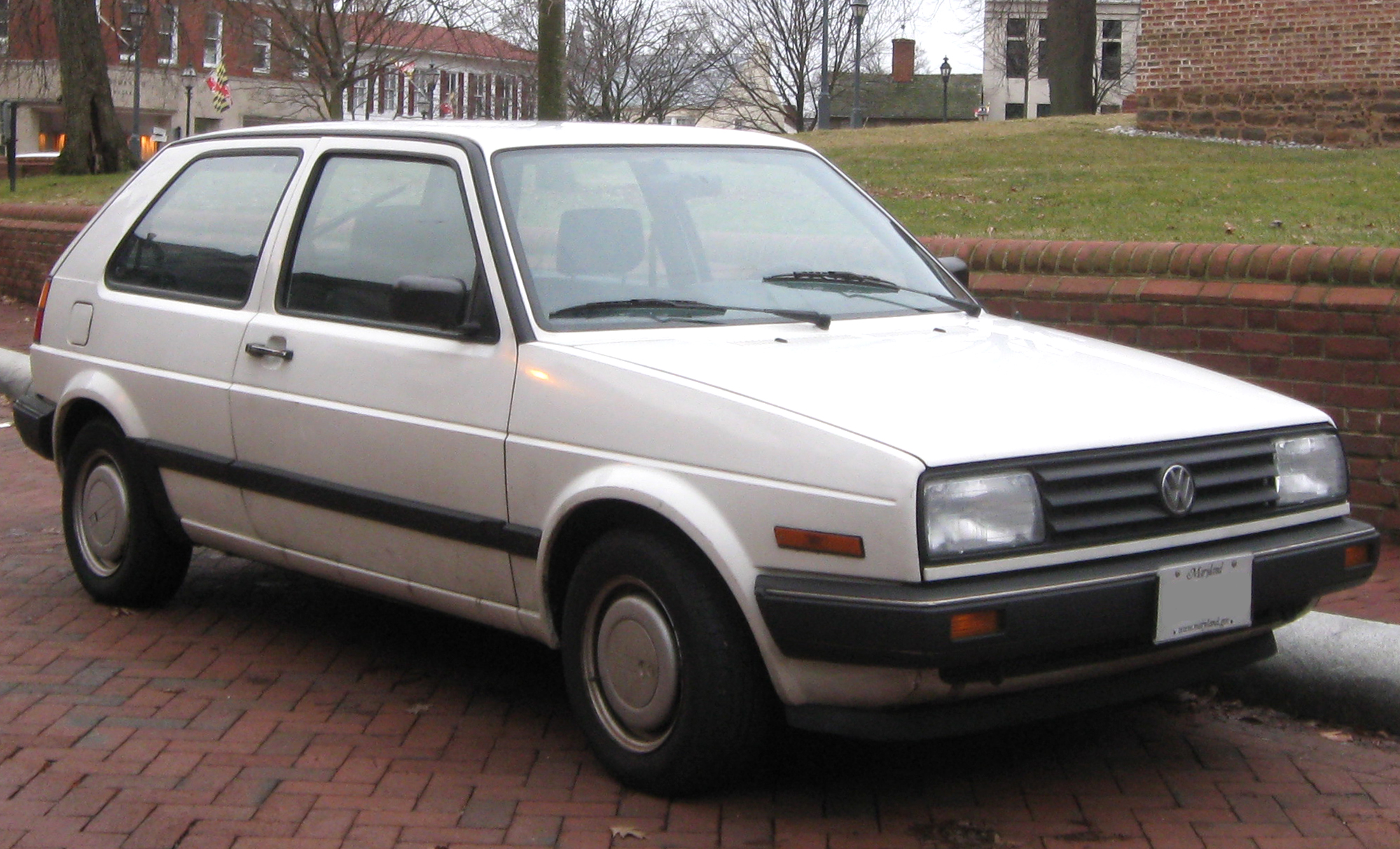 1988-1989 Volkswagen Golf photographed in Annapolis, Maryland, USA.